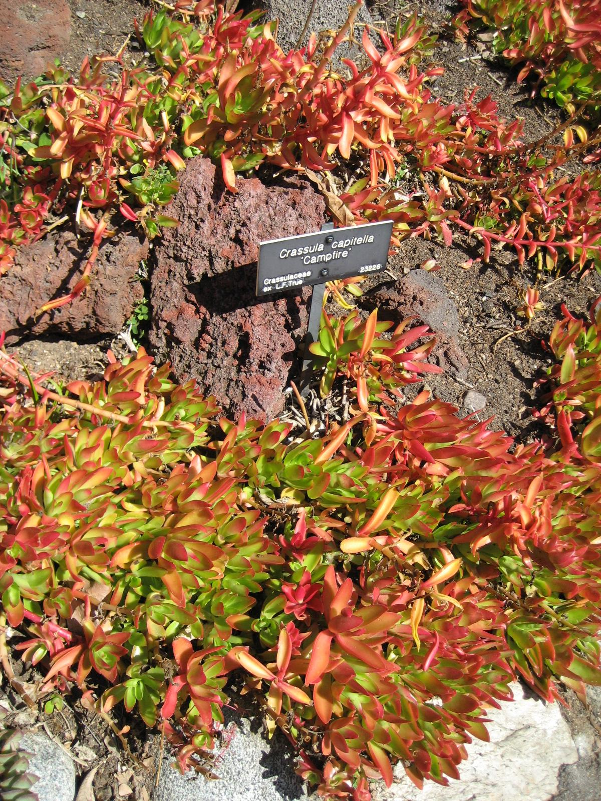 Photographed at Huntington Gardens (Los Angeles) in March